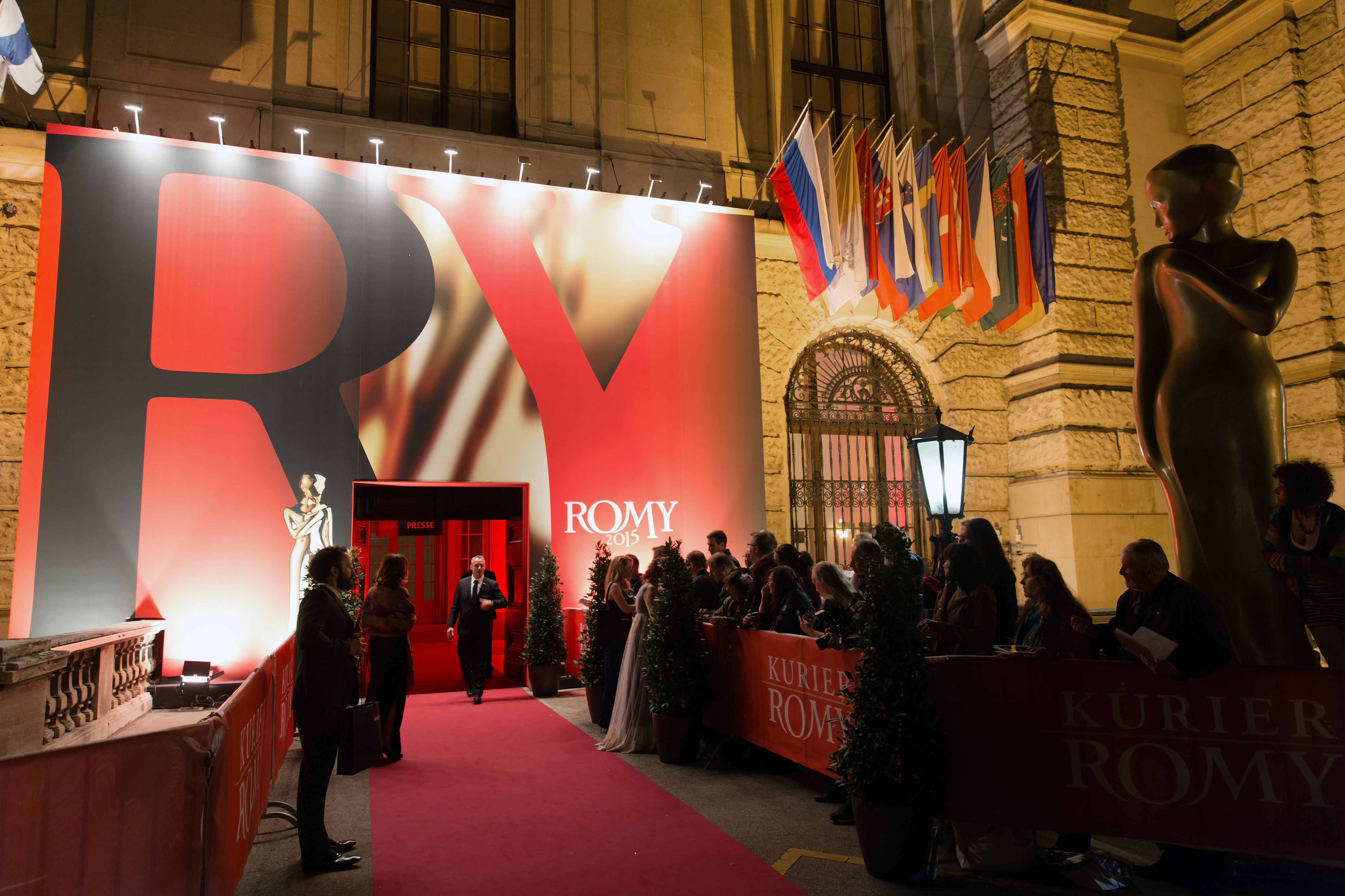 Red carpet of the Romy TV awards at Hofburg Palace in Vienna, Austria.